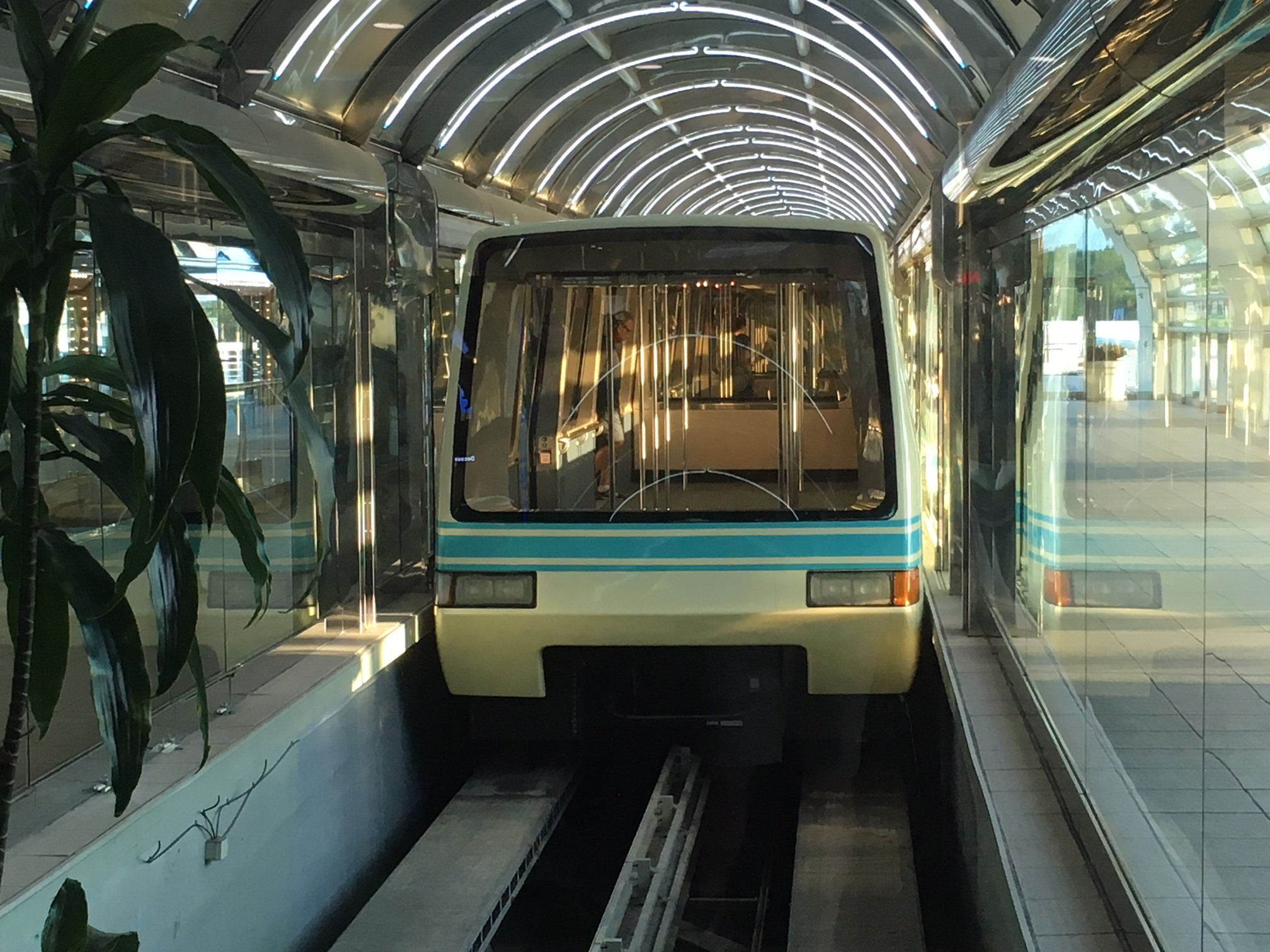 Orlando Airport Shuttle Station